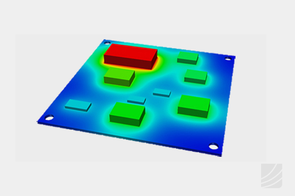 This image shows the thermal effect in electronic chips mounted on a printed circuit board (PCB).